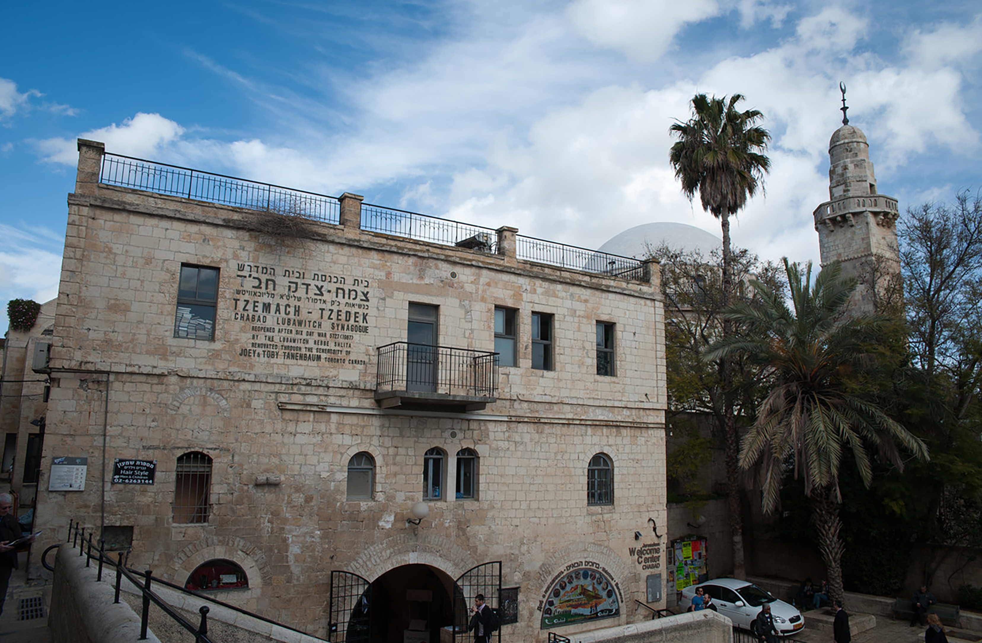 Jérusalem - Vielle ville et Mont des Oliviers.